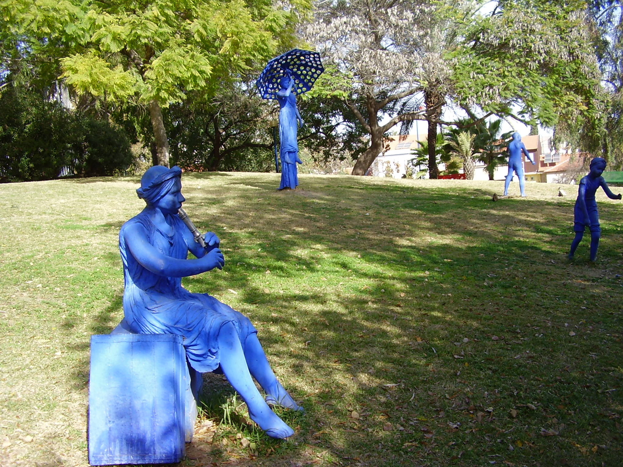 Sculpture garden in Holon